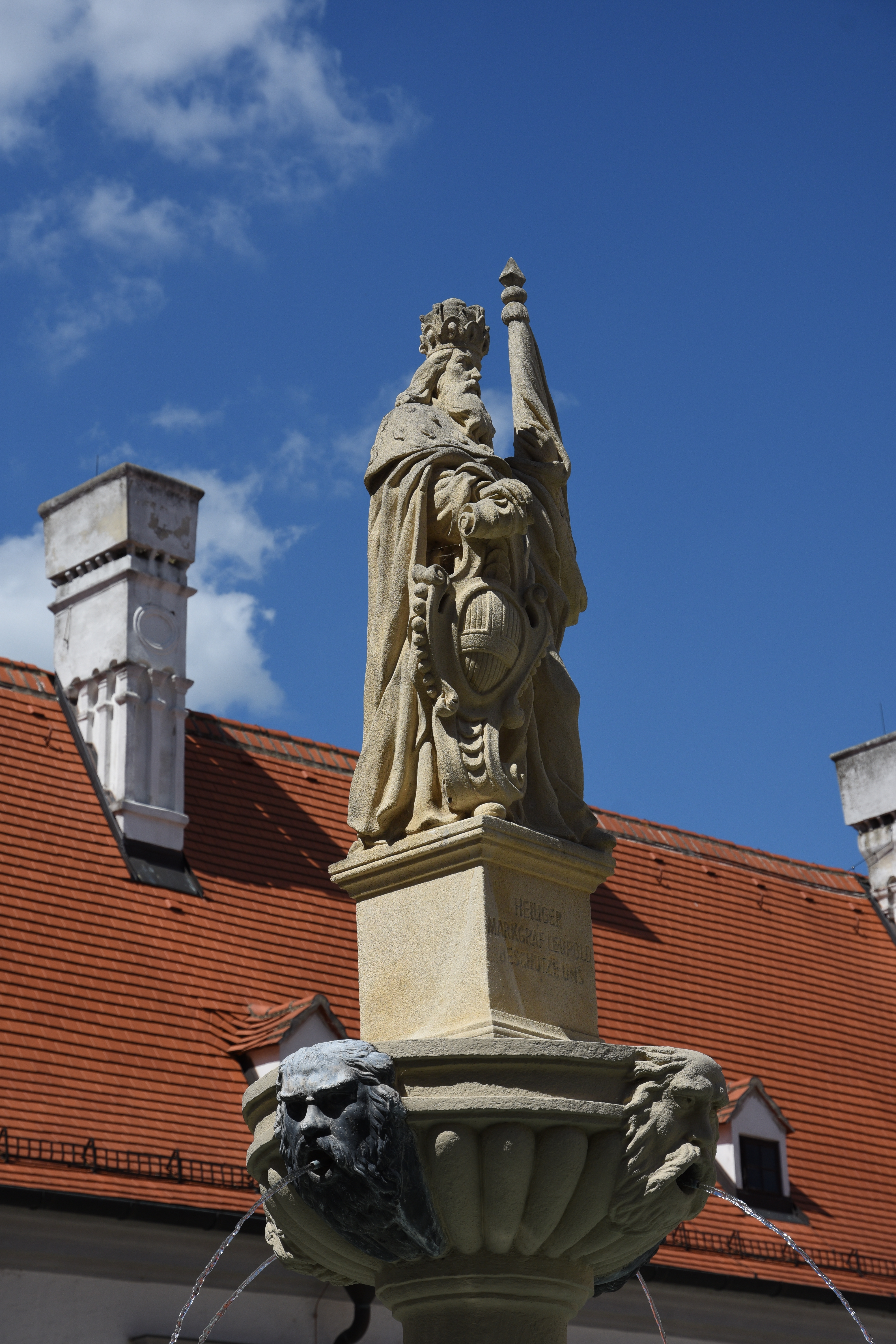 Leopold III.